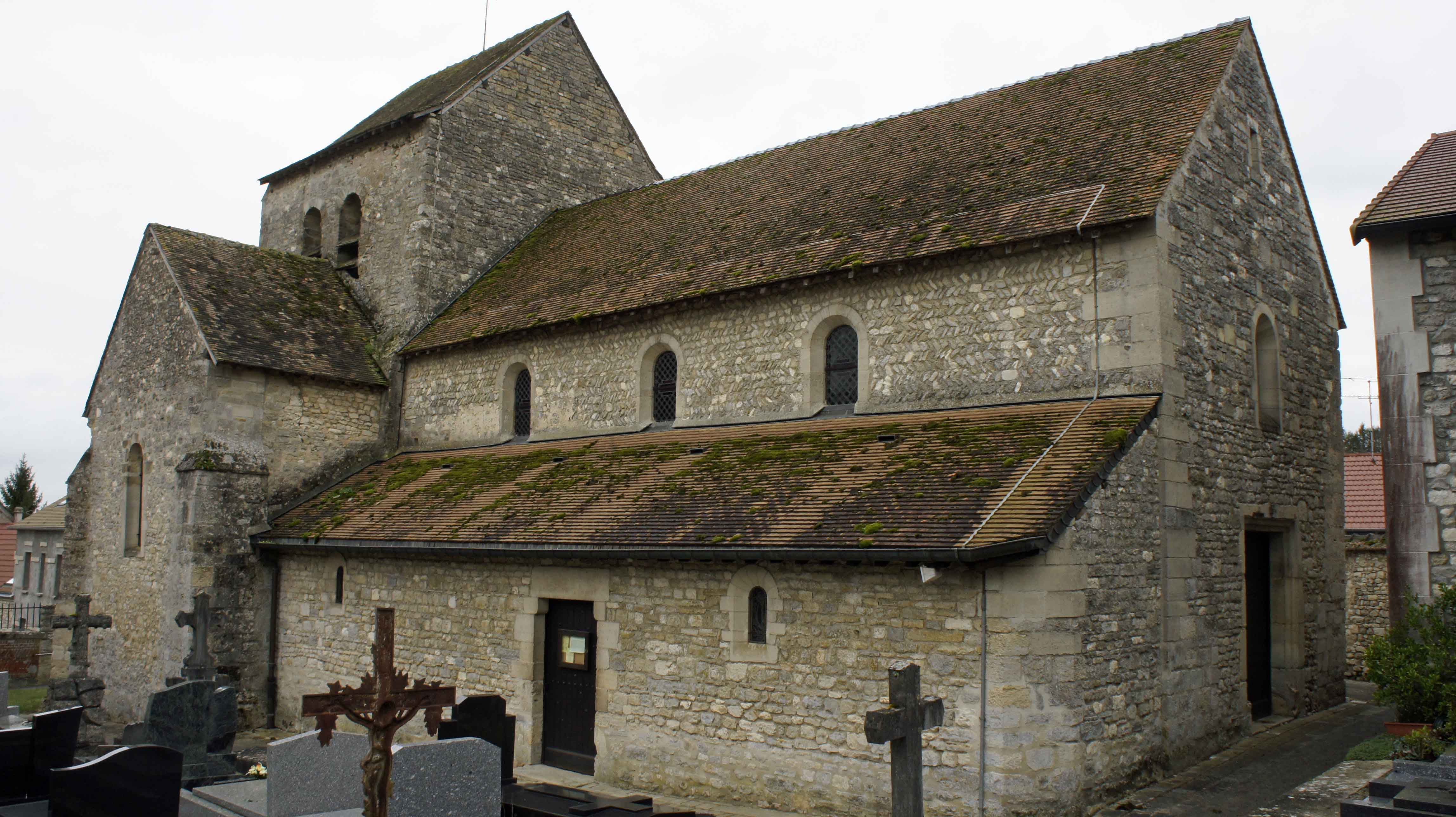 Churches in Coulommes-la-Montagne